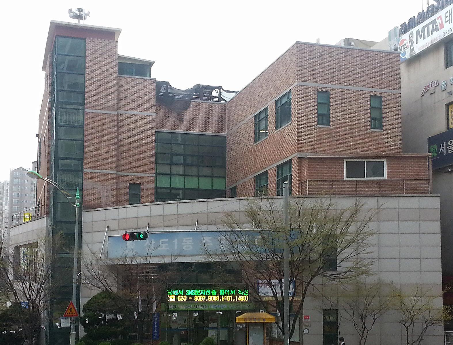 Sangdo 1-dong Community Service Center